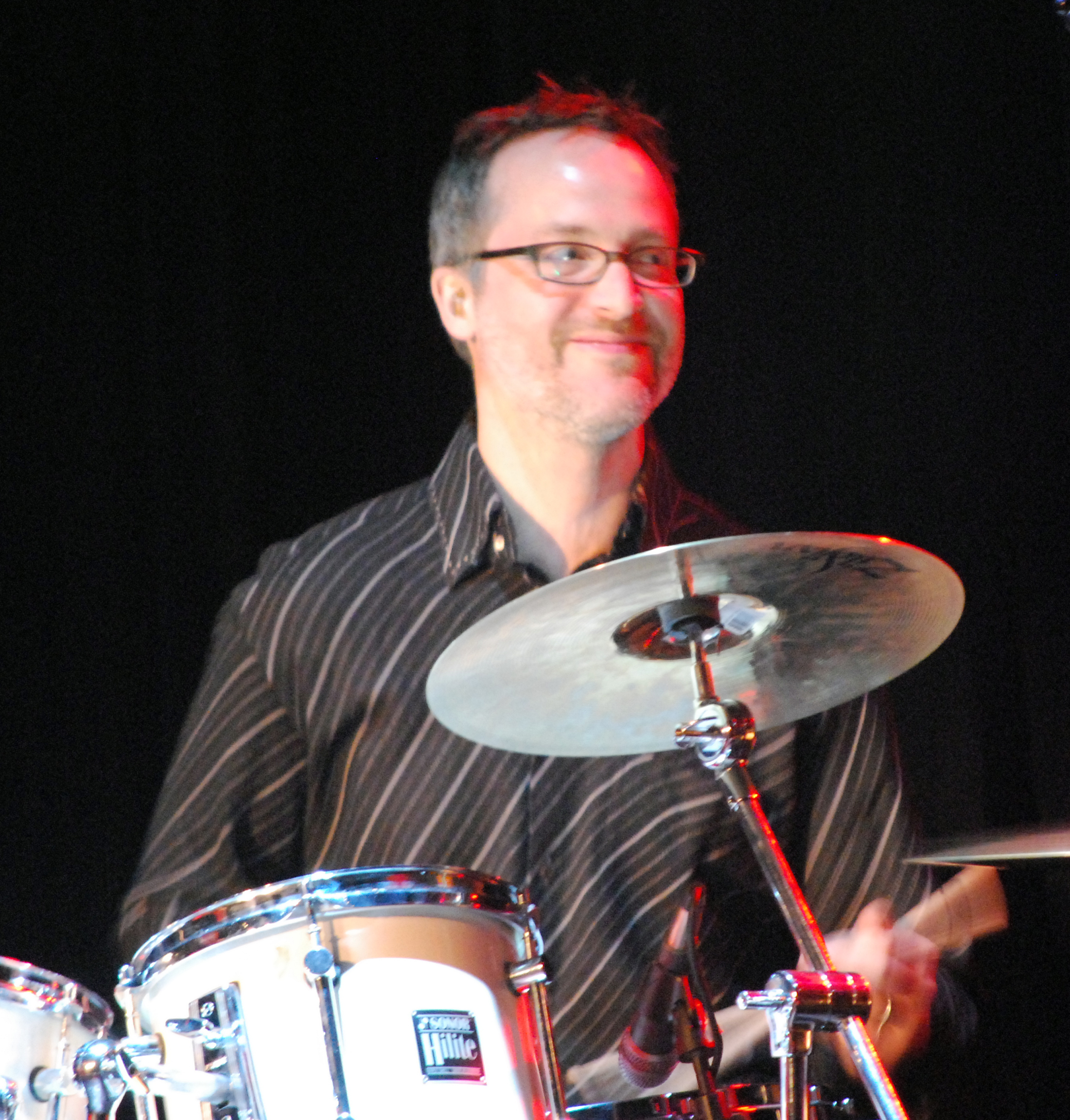 Michael Sarin at a concert with David Krakauer's Klezmer Madness. Treibhaus Innsbruck 2009